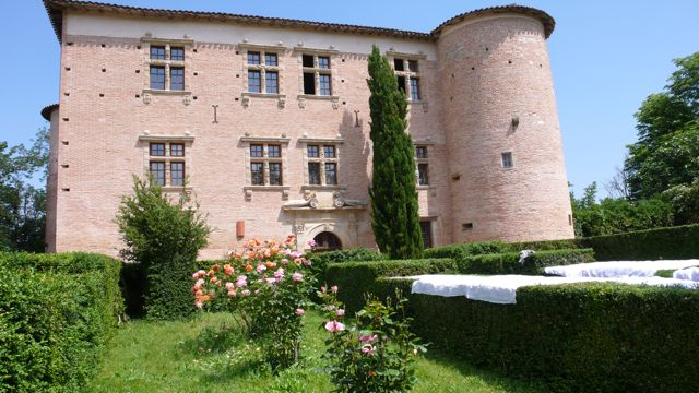 Château de Padiès, 81700 Lempaut TARN, France. South Façade - roses in bloom